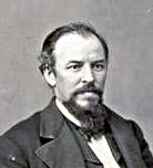 Thomas Bowles Shannon, US Representative from California